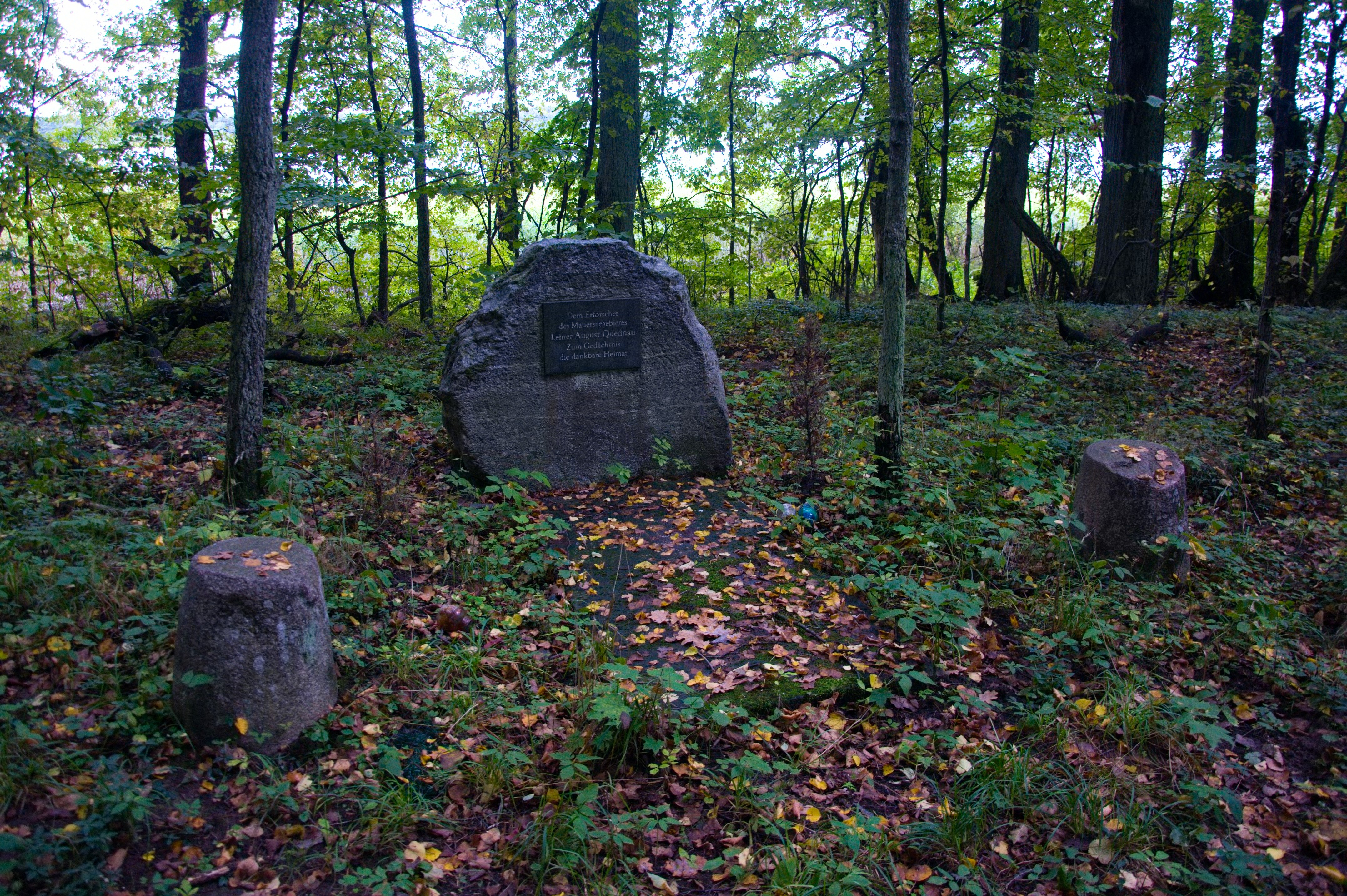 The thombstone of the teacher August Quednau